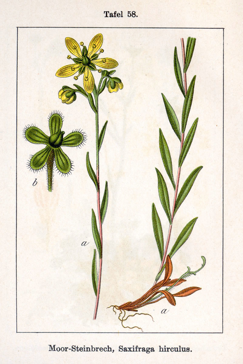 Saxifraga hirculus L. Original Description Moor-Steinbrech, Saxifraga hirculus